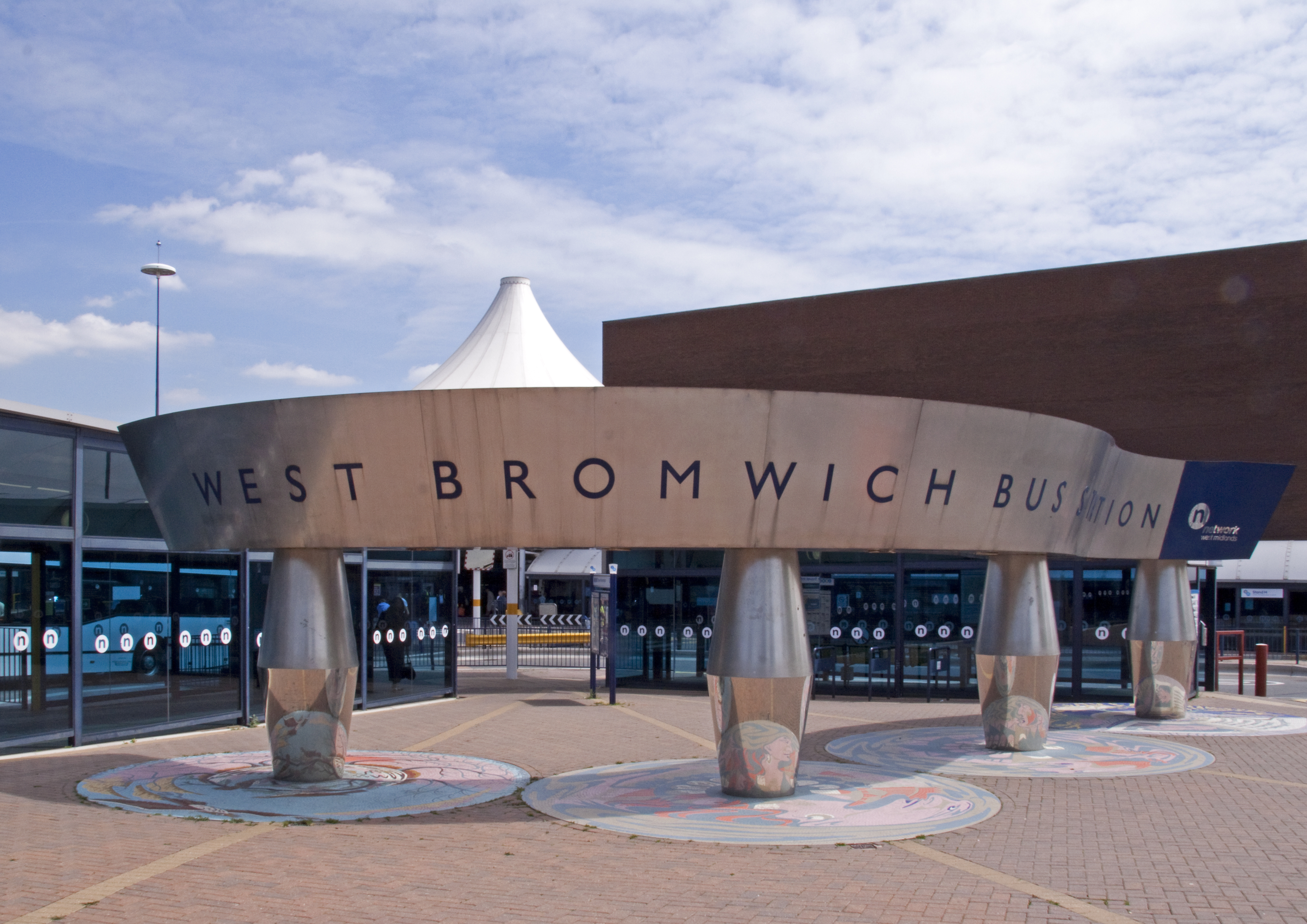 West Bromwich bus station, mosaic artwork, Anamorphic Portico, by local sculptor Steve Field, which makes use of anamorphic columns and includes images loosely derived from David Christie Murray's book A Capful o’ Nails.